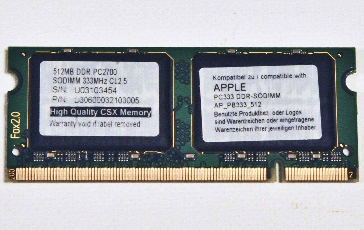 500 MB DDR RAM Memory for Apple laptop computer